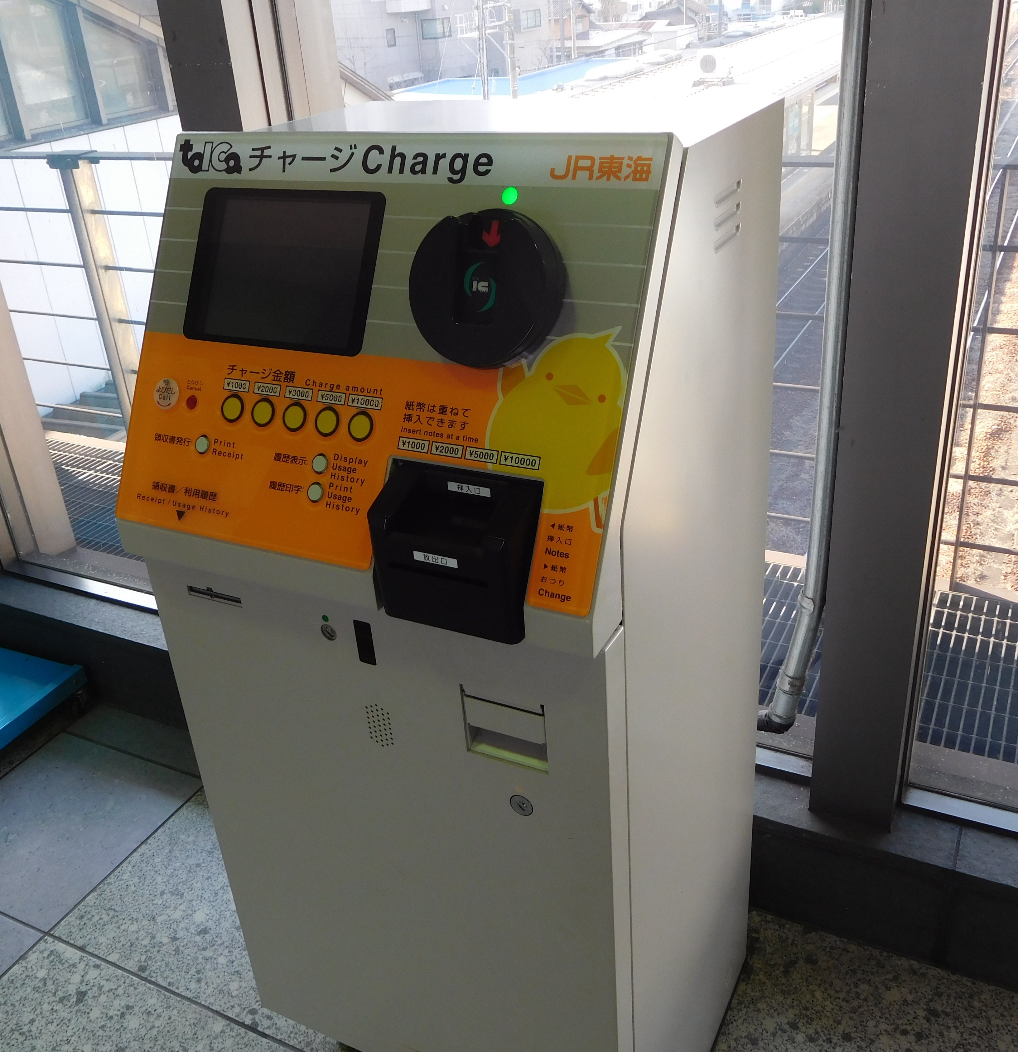 This is an IC card "TOICA" charger in Mino-ōta station, Minokamo, Gifu, Japan.